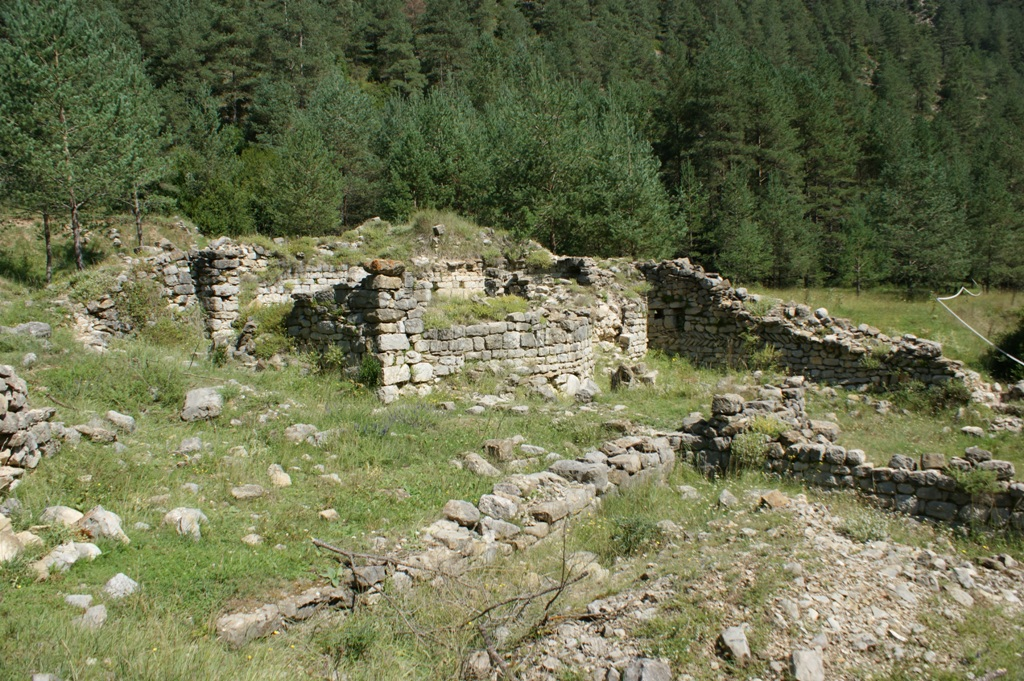 Ruins of the monastery of San Sebastian Sull. Ninth century. Pre-Romanesque. Saldes (Barcelona).